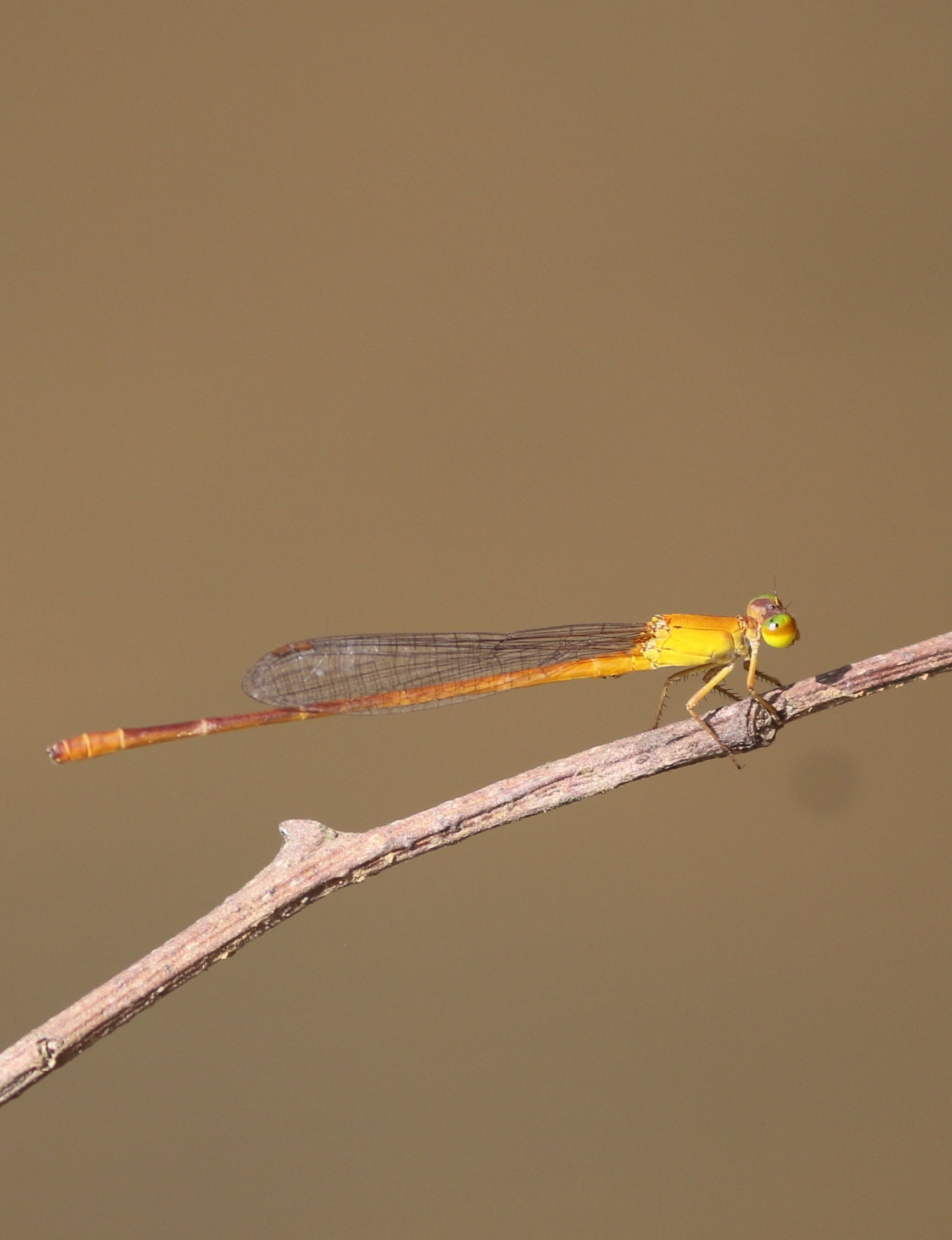 Ceriagrion rubiae ,Orange Wax Tail or Orange Marsh Dart